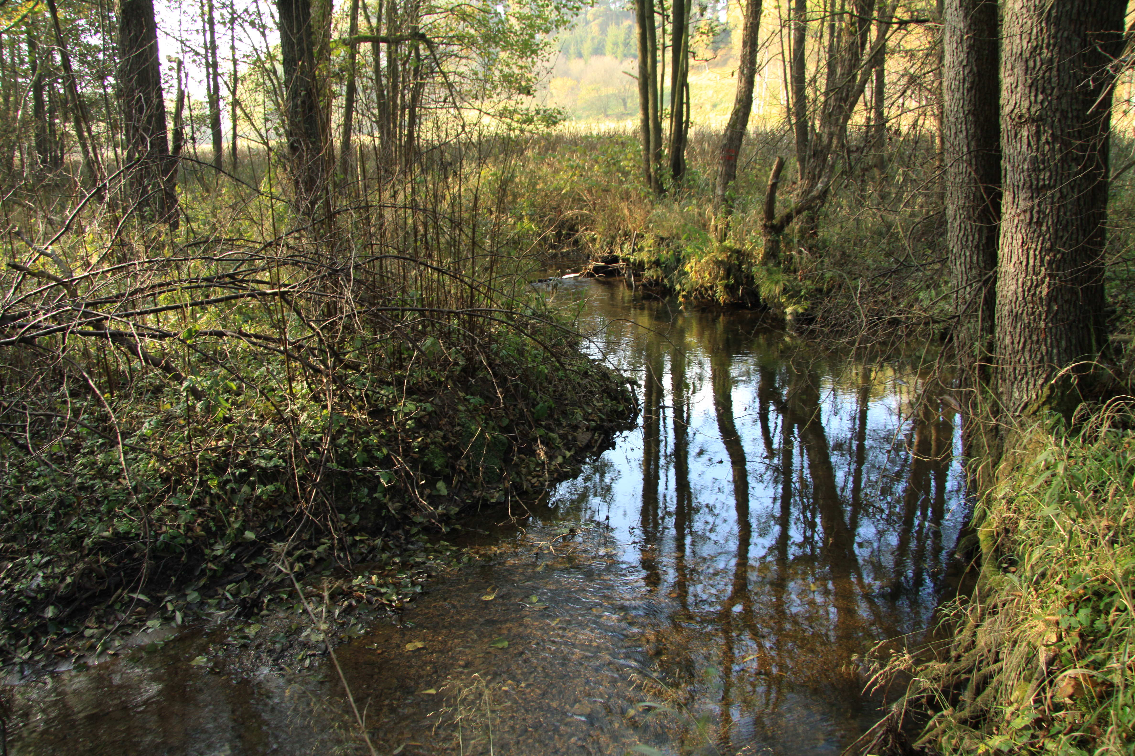 Křemžský creek in nature reserve Dobročkovské hadce near Dobročkov village, Prachatice District, Czech Republic Project: Chráněná území.